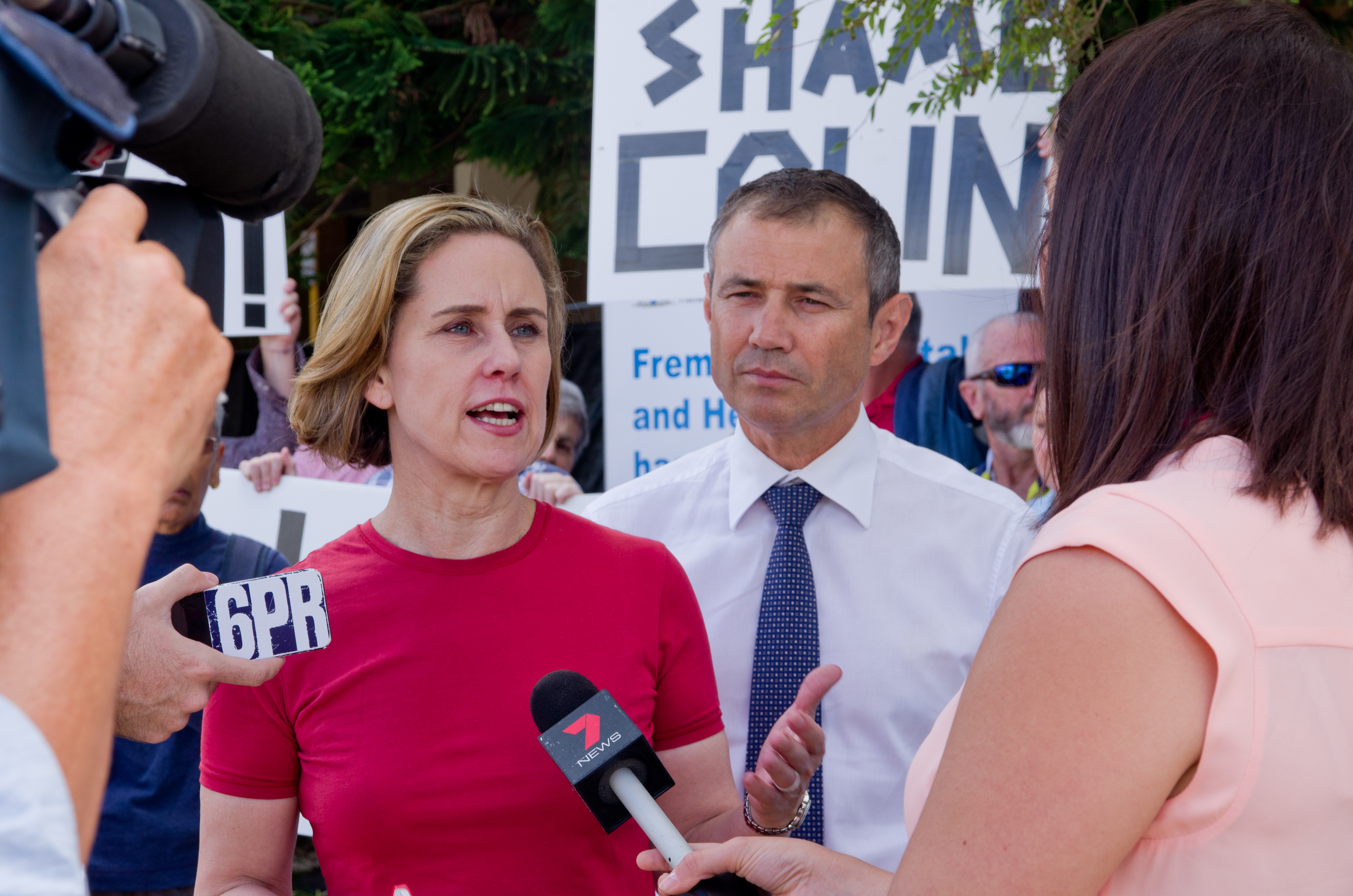 Closing of Fremantle Hospital's emergency department services 3 February 2015 Simone McGurk and Roger Cook being interviewed